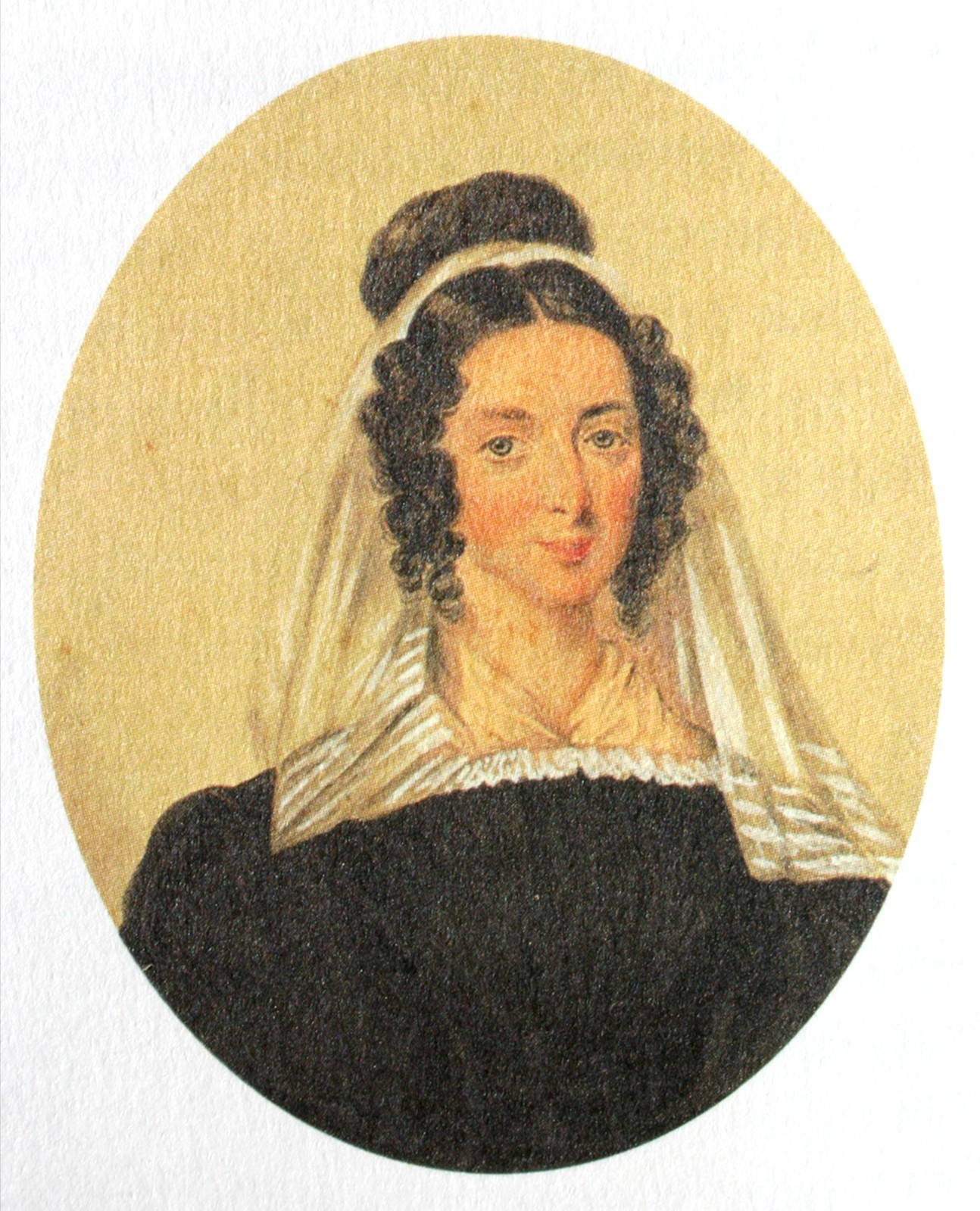 Mary Maclear, wife of Thomas Maclear (1794-1879), Astronomer Royal at Cape of Good Hope